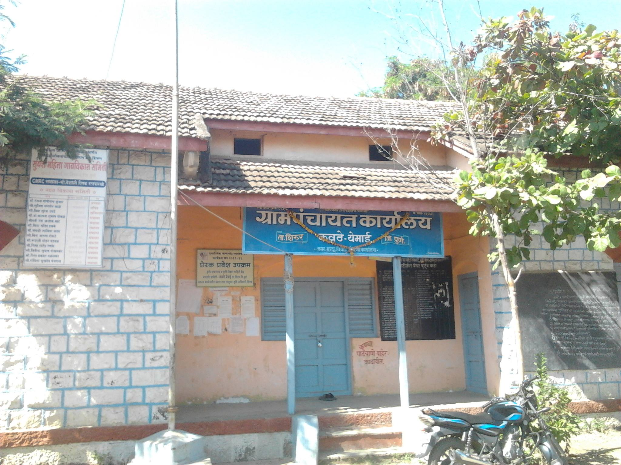 kavathe yamai